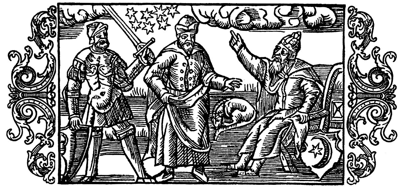 To the left the armed Oden (Odin), in the middle Tor (Thor) and to the right a god of the Byzantium. A dog is sleeping in the background.